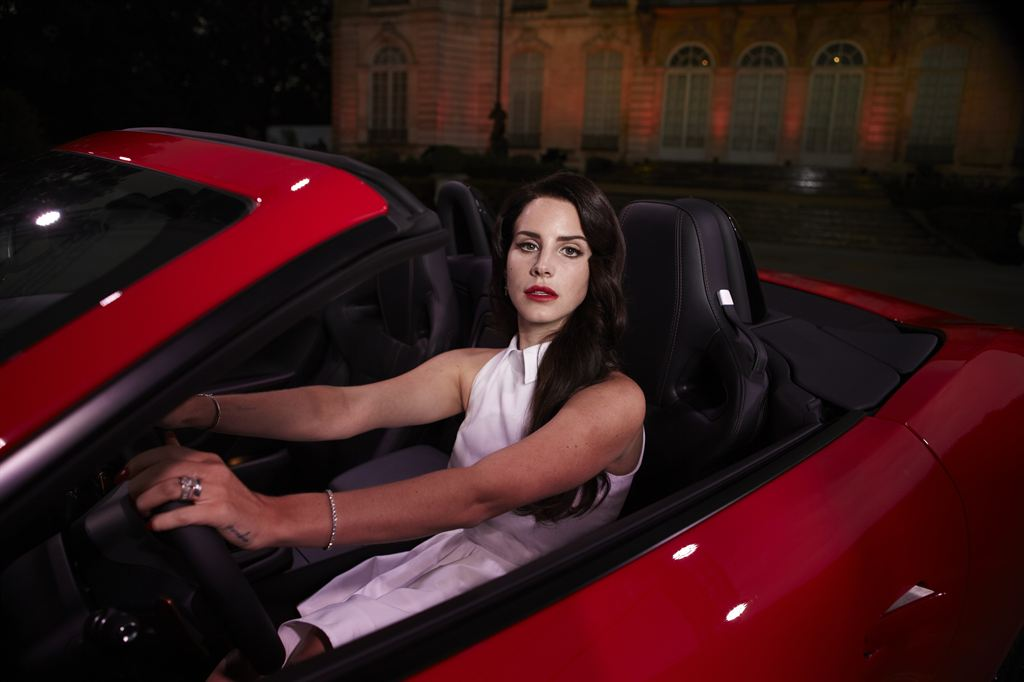 Brit and Ivor Novello award winner Lana Del Rey today released the video for ‘Burning Desire’. It was written and composed by the singer songwriter and will feature as the title track to a special film called ‘Desire’ starring Golden Globe winner Damian Lewis, which has been created by Jaguar and the award winning producers Ridley Scott Associates.